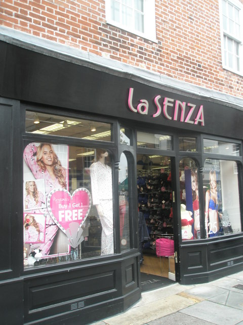 La SENZA in South Street